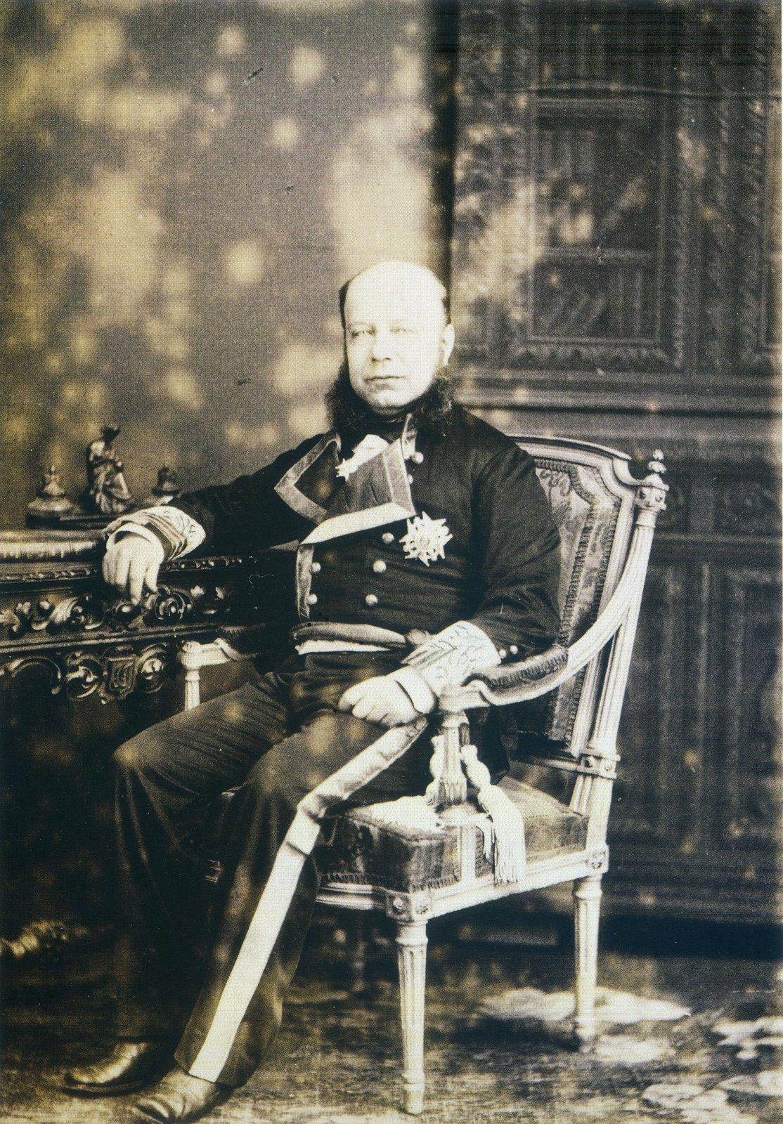 Tomás de Tallerie, in a photograph circa 1880.